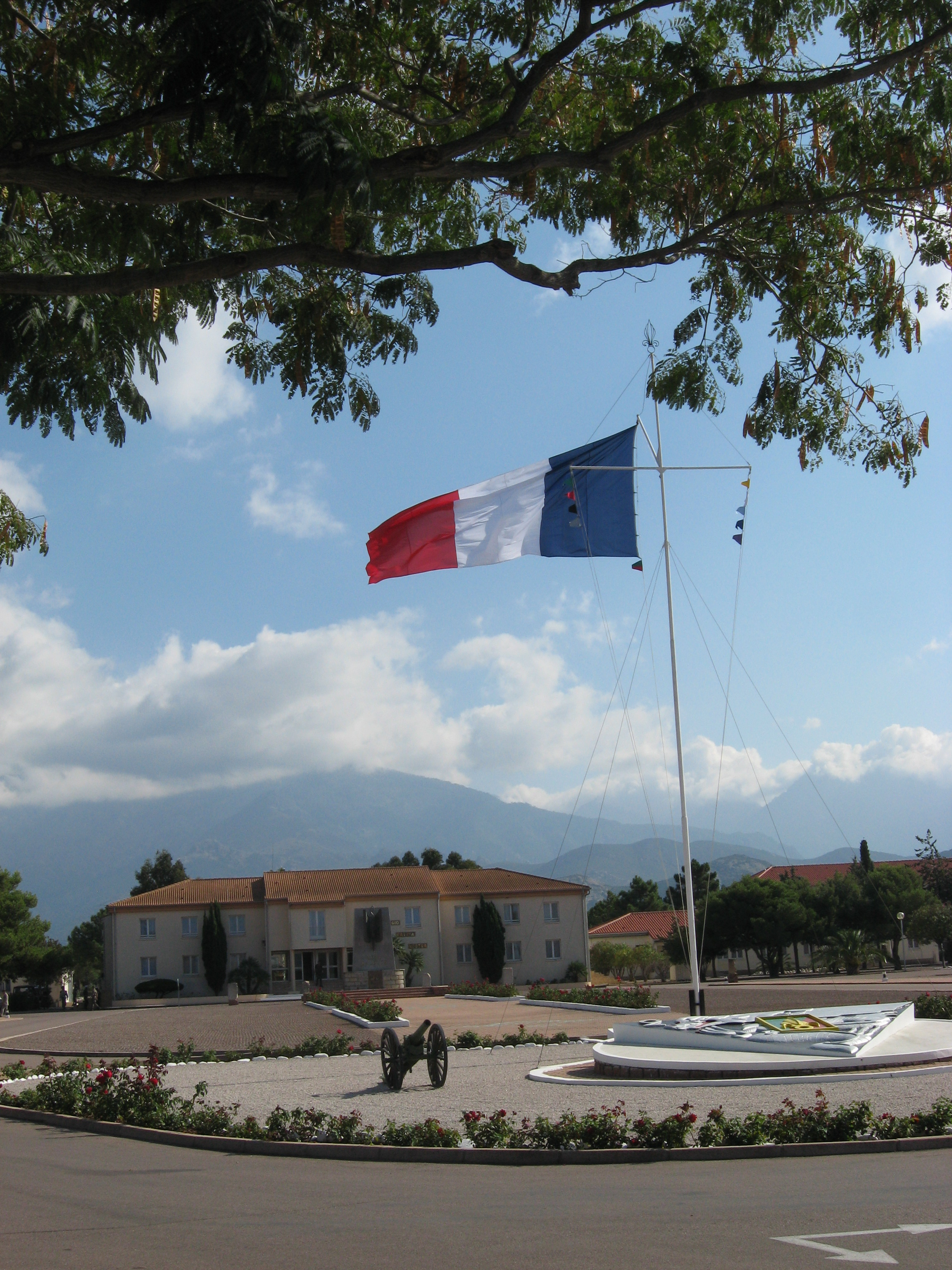 Camp Raffalli, Calvi, Corsica (France)